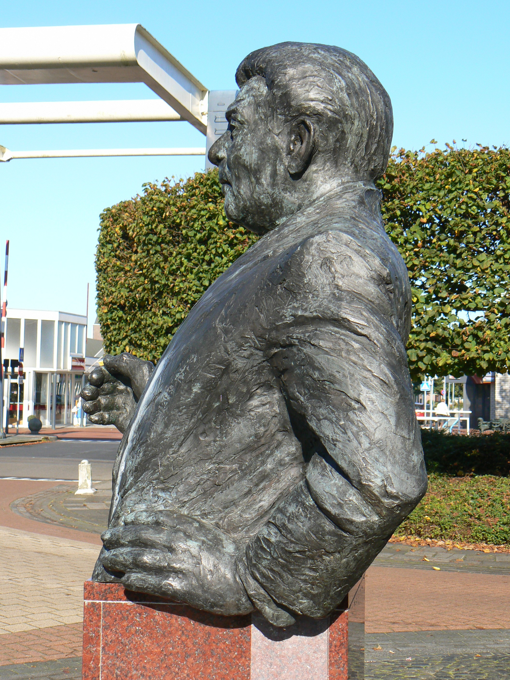 bust "Fre Meis" (2002) by Christine Chiffrun in Oude Pekela/The Netherlands